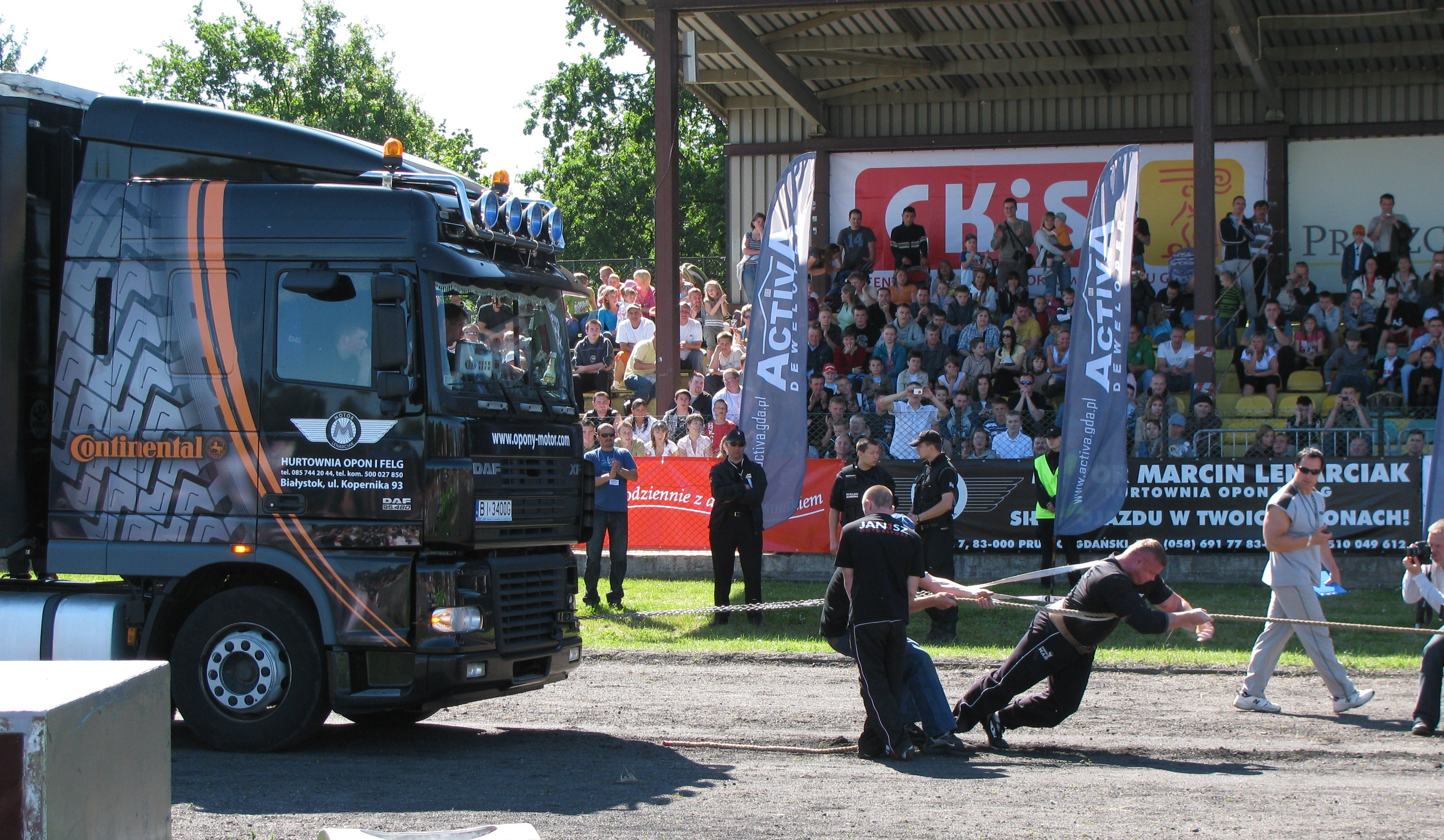 Strongman event: Truck Pull.